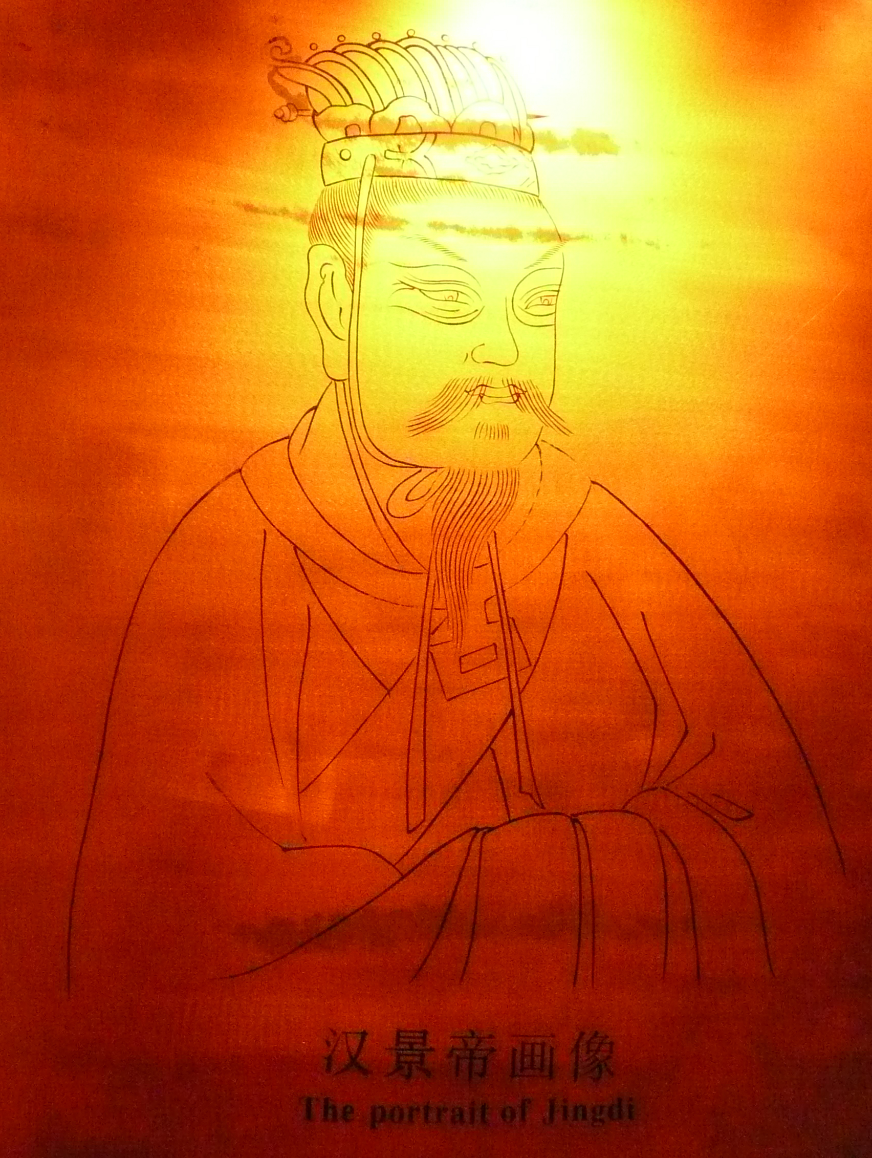 Emperor Han Jingdi, photo taken in the Han Yang Ling museum, Xianyang